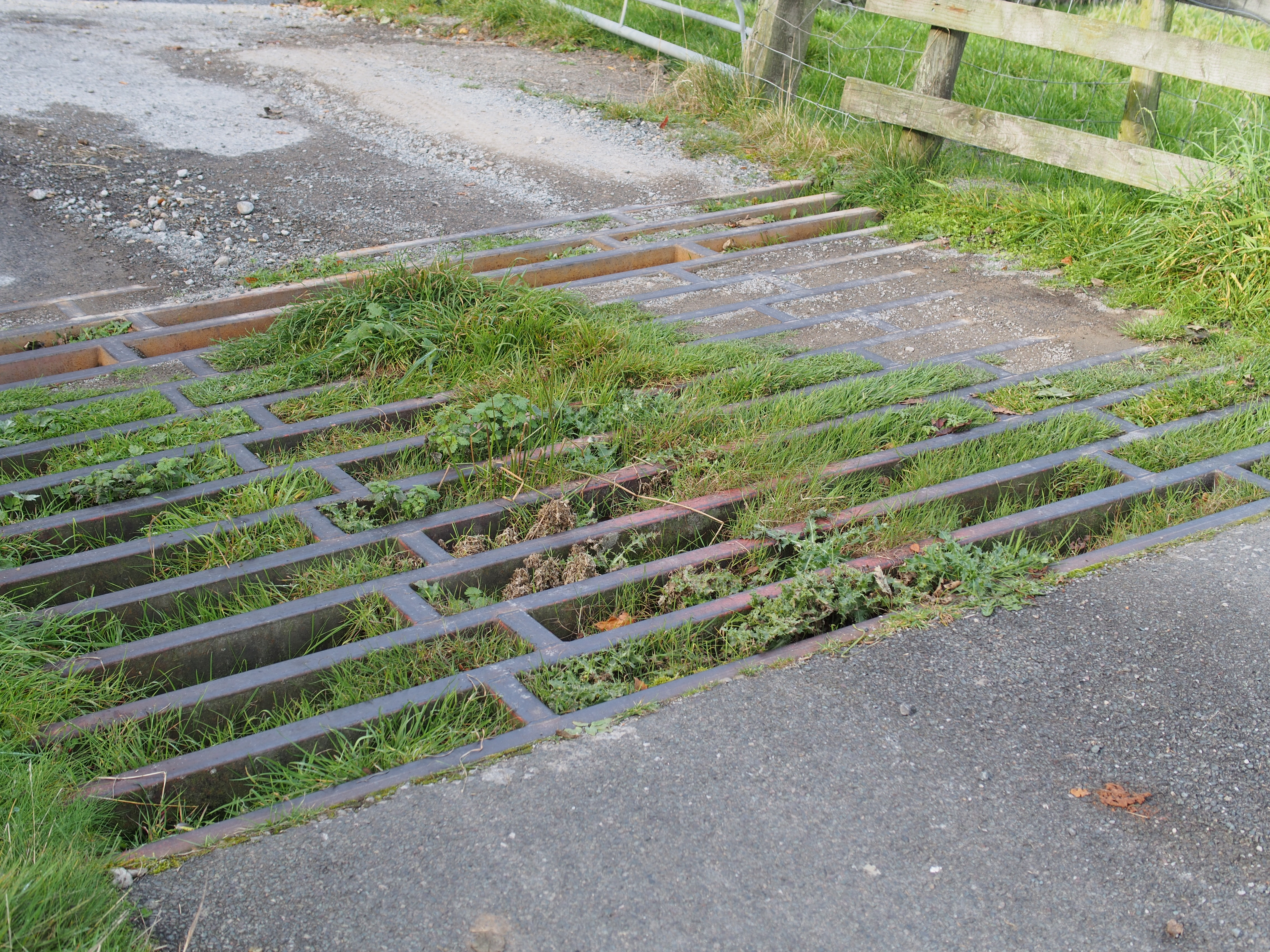 Overgrown cattle grid, losing its function